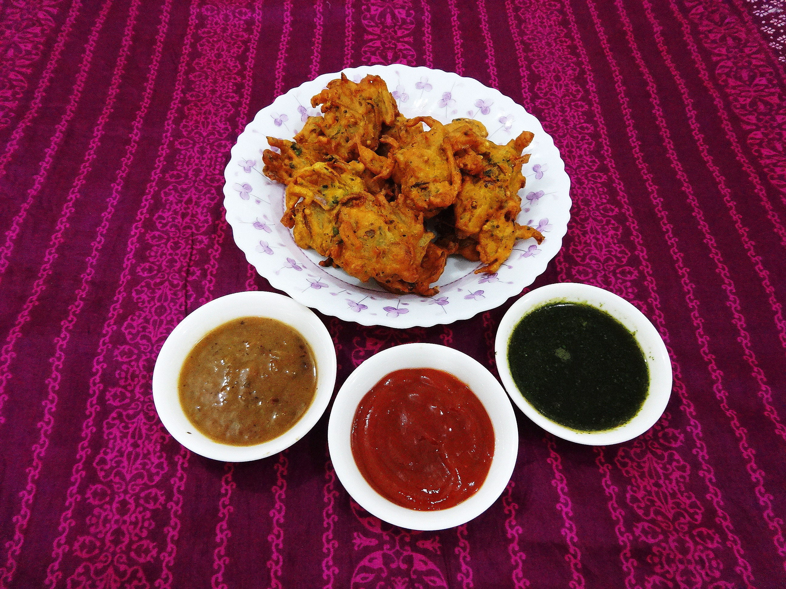 Onion Bhajiya, Onion Bhajias